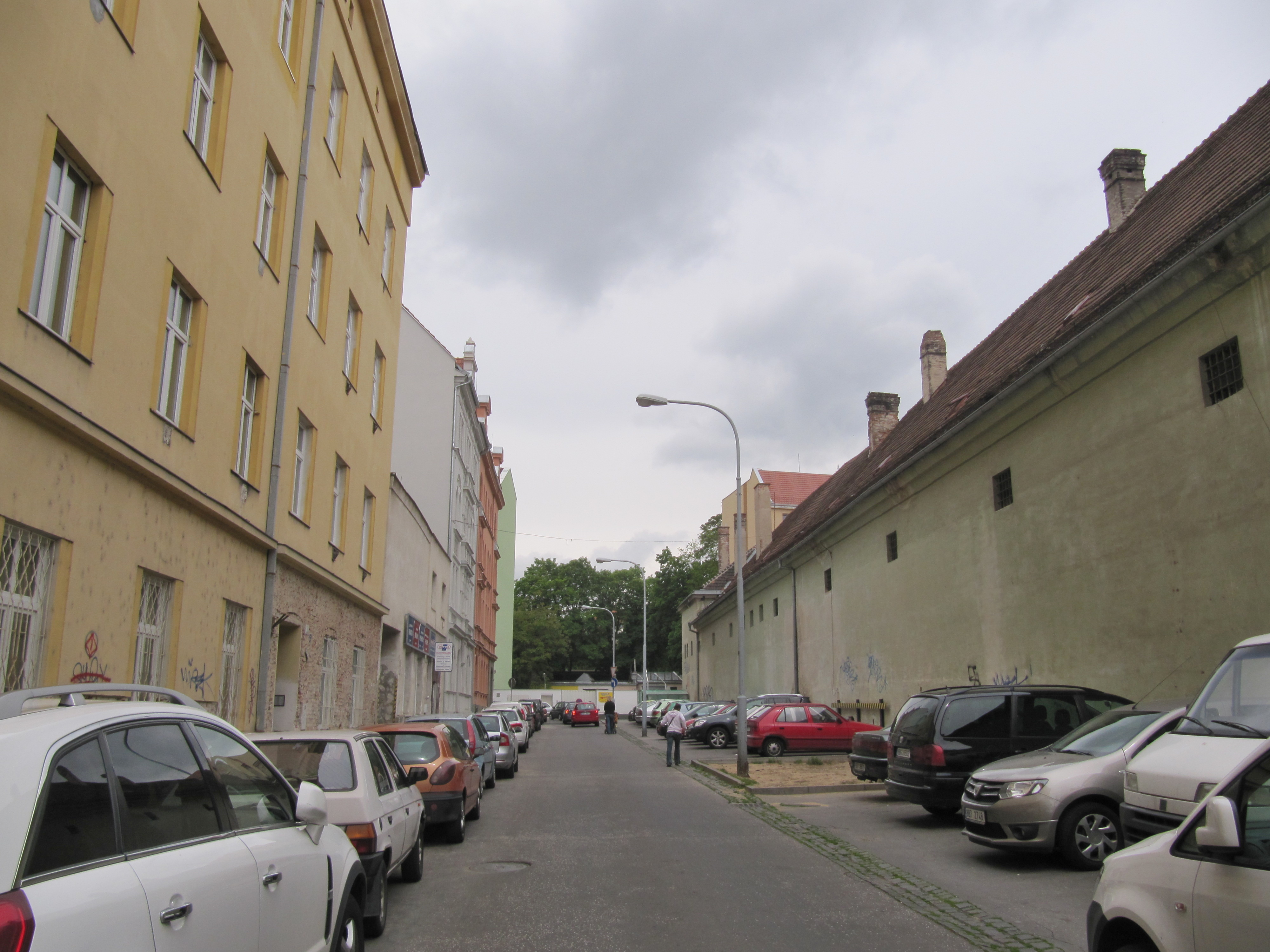 Brno, Czech Republic, part Zábrdovice, Soudní street.